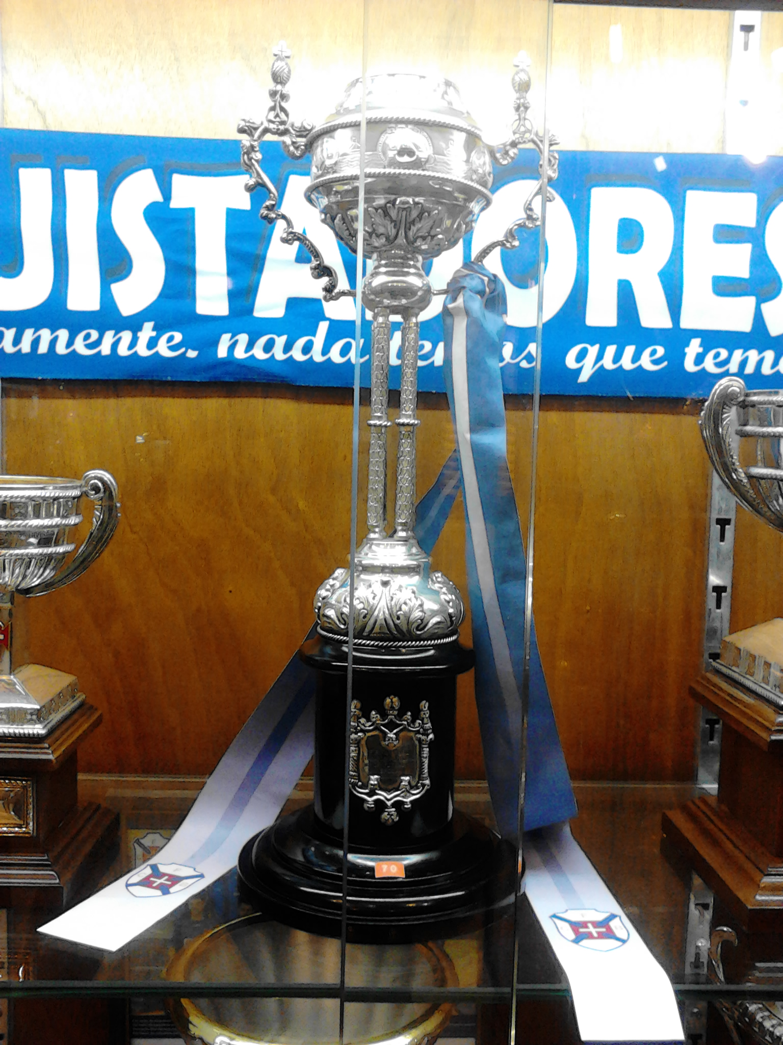 Beat Benfica in the final to win their biggest trophy in Futsal